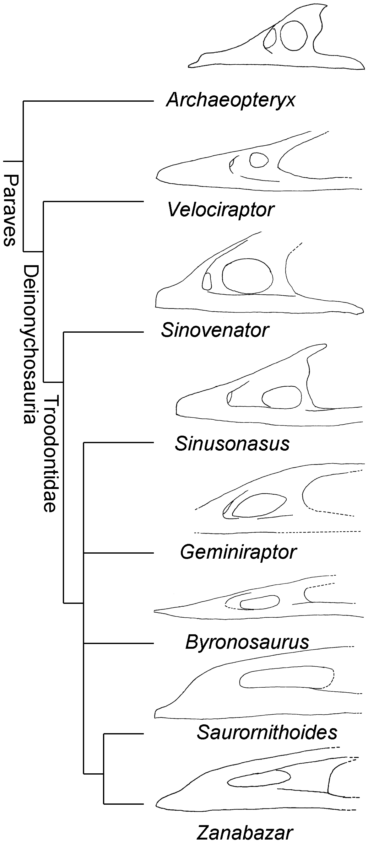 Comparison of the maxilla of Geminiraptor suarezarum to those of other paravians. Maxillae are drawn from photos by P.S. of AMNH (American Museum of Natural History, New York City, New York) FR 6515 (Velociraptor), IVPP V 12615 (Sinovenator), IVPP V 11527 (Sinusonasus), CEUM 7319 (Geminiraptor), IGM (Mongolian Institute of Geology, Ulaan Baatar, Mongolia) 100/983 (Byronosaurus), AMNH FR 6516 (Saurornithoides), and IGM 100/1 (Zanabazar); and reference 18 (Archaeopteryx).